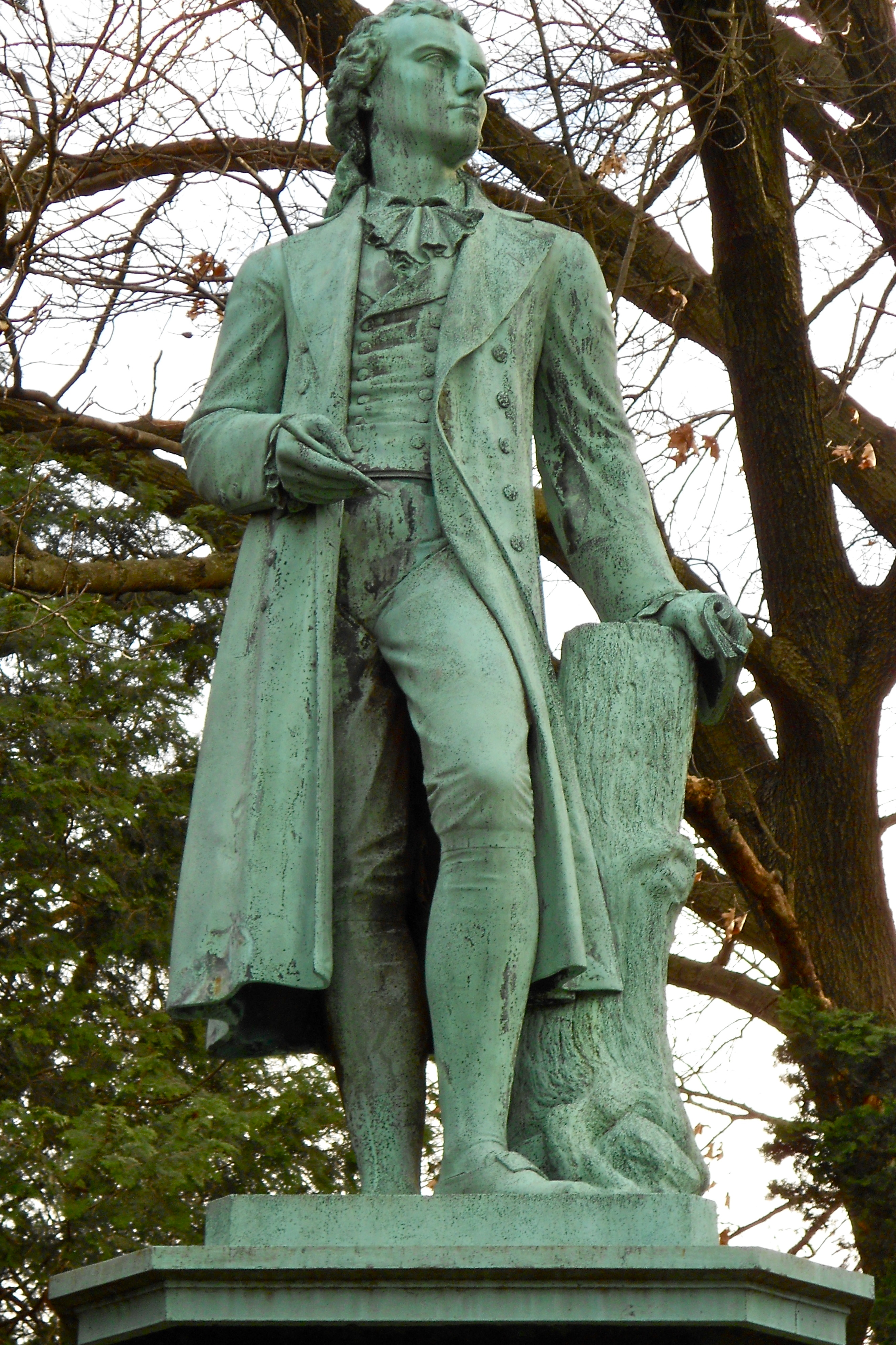 Sculpture of Schiller by Heinrich Manger, 1885. Bronze sculpture, Upper base: granite; Sub-base: stone. SIRIS reference IAS 75009312